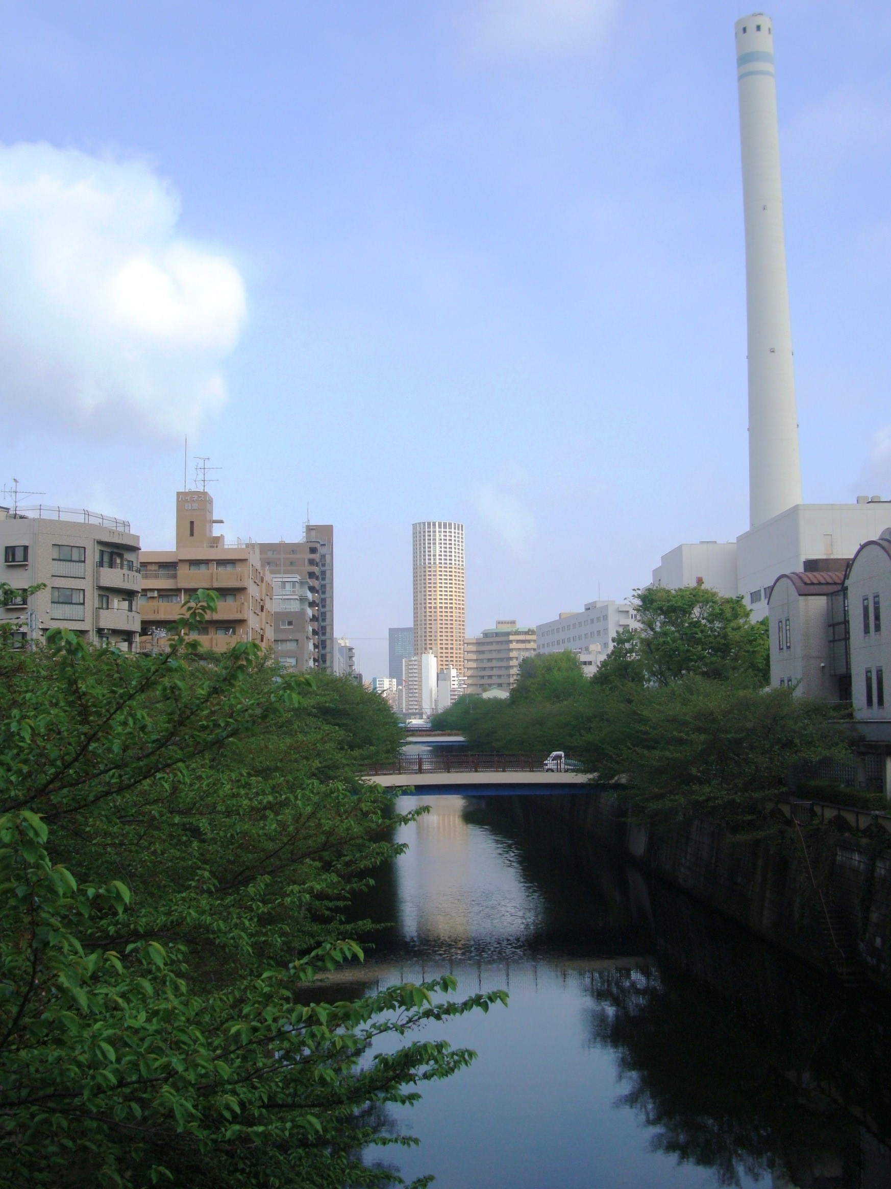 Meguro River at Meguro 1/Meguro 2, Meguro city, Tokyo (Nakameguro Atlas Tower in the center and Meguro Incineration plant on the right)